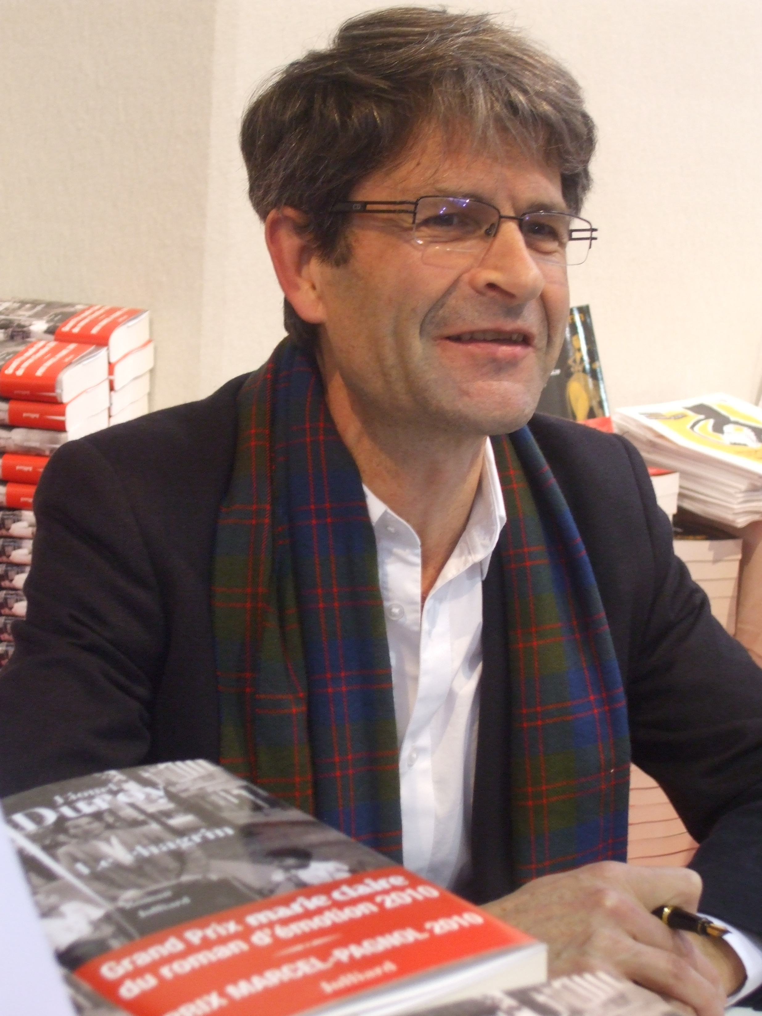 Lionel Duroy, french writer, Brive la Gaillarde book fair, France, 2010 11 05